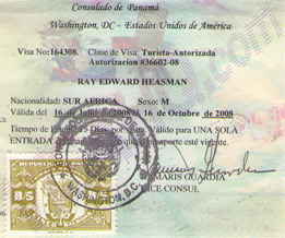 Panamanian visa